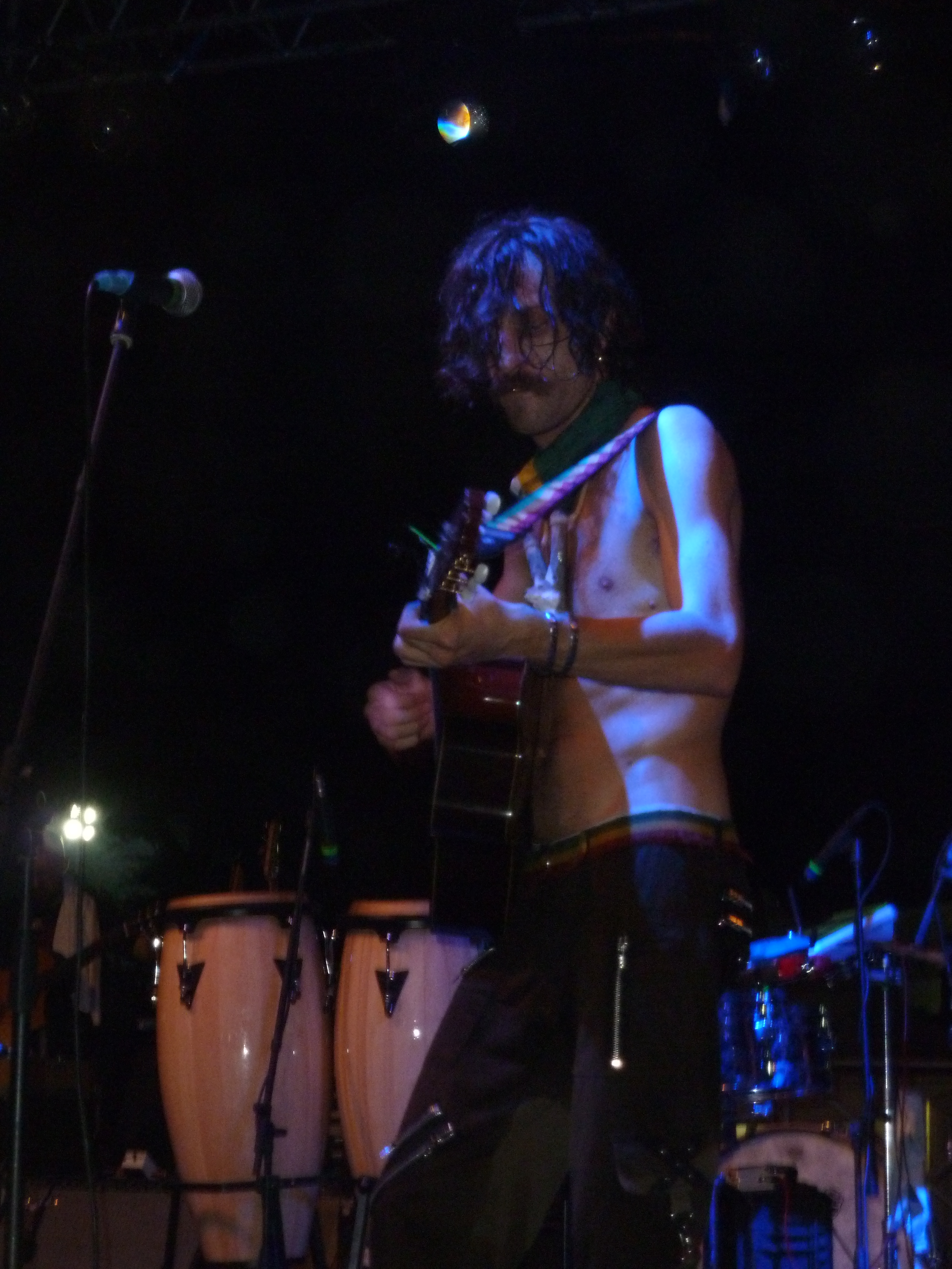 Eugene Hütz with Gogol Bordello Live @ Pisa Italy 17/07/2010.